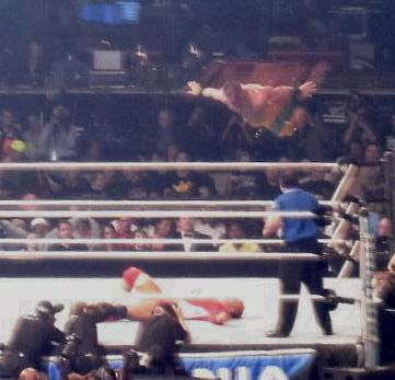 Chris Benoit performing his Diving Headbutt finisher to Montel Vontavious Porter at WrestleMania 23. (Cropped from flickr)DSC03449